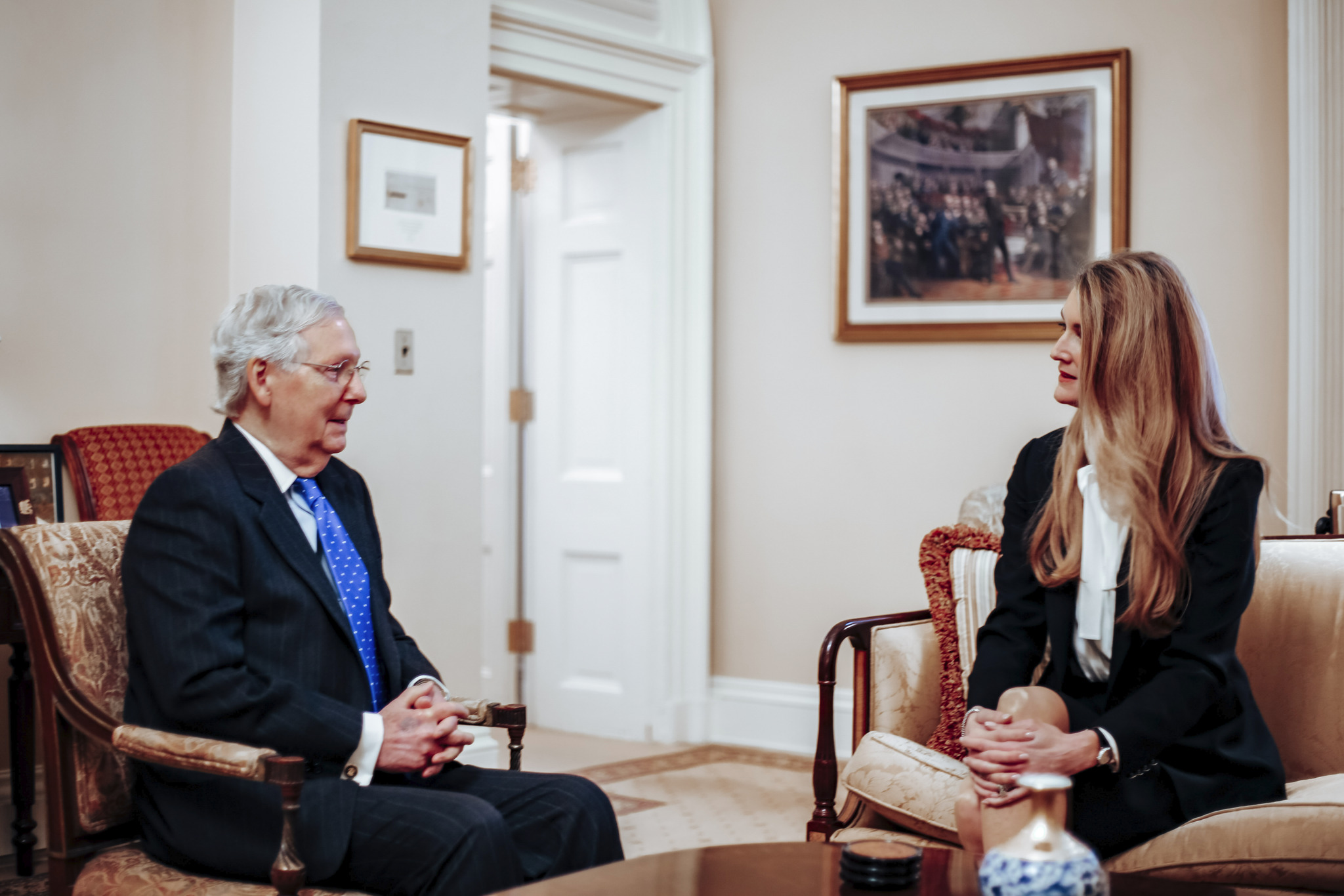 WASHINGTON, DC – U.S. Senate Majority Leader Mitch McConnell (R-KY) released the following statement after meeting today with Senator-Designate for Georgia, Kelly Loeffler: ‘It was a pleasure to meet with Senator-designate Kelly Loeffler this morning. It is already clear that Governor Kemp has made a terrific choice. Senator-designate Loeffler is an impressive and thoughtful leader who is eager to continue Sen. Isakson’s record of outstanding service for the people of Georgia. ‘We discussed our shared priorities that will define Senate Republicans’ work in 2020: Continuing to grow this historically strong economy for American workers and families, advocating for our veterans, rebuilding and modernizing our armed forces, and confirming impressive men and women to the federal judiciary. ‘Georgians will be well-served to have Senator-designate Loeffler on their team starting in January and her soon-to-be Senate Republican colleagues will be glad to have her on ours.’